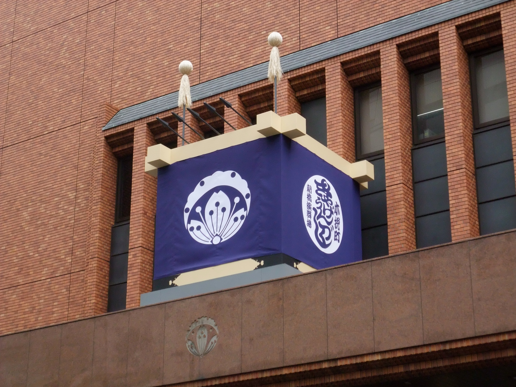 The Yagura above the entrance of Shinbashi Enbujō theater in Chuo-ku, Tokyo